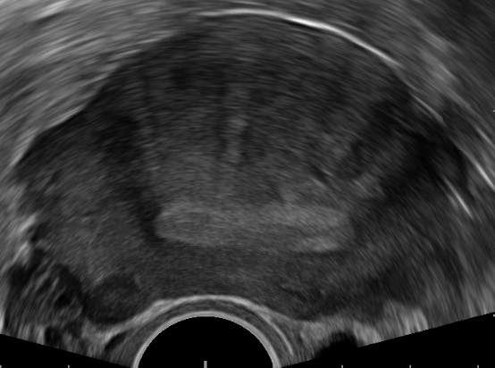 Transvaginal ultrasonography of the uterus, showing the endometrium as a hyperechoic (brighter) area in the middle, with linear striations extending upwards from it. This is a specific sign of adenomyosis.